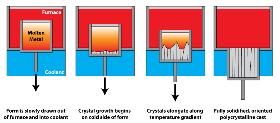 Schematic of the directional solidification process. Molten metal is placed in a form within a furnace. The form is slowly drawn out of the furnace, into a coolant. As a temperature gradient develops across the form, crystal growth is initiated on the bottom of the form, and slowly propogates upwards as the form is withdrawn into the coolant.